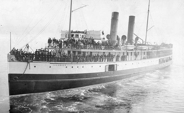 Steamship Islander of the Canadian Pacific Navigation Co. leaving Vancouver, BC for Skagway Bay in 1897.